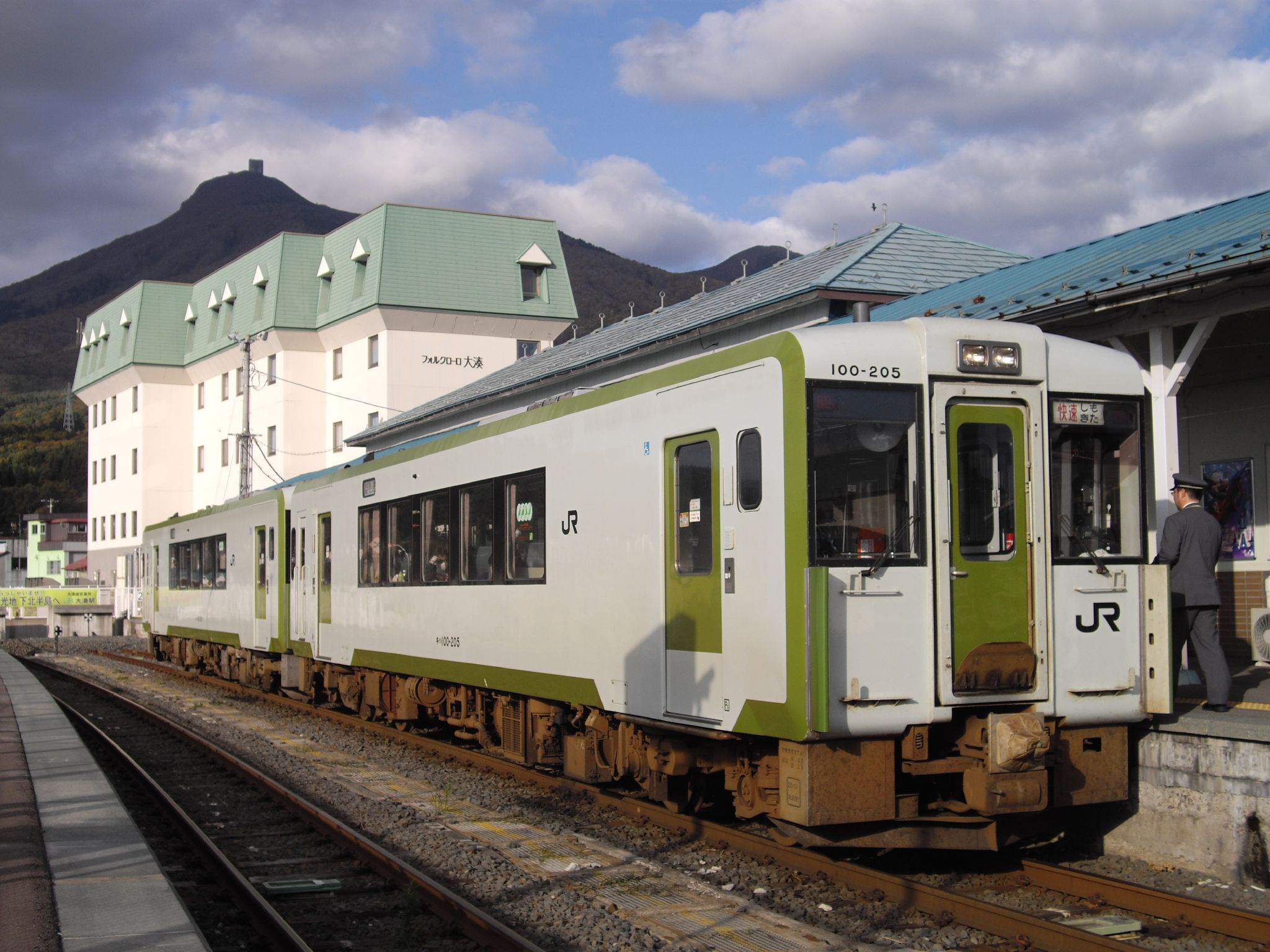 A two-car KiHa 100 DMU formation at Ominato Station on a Shimokita rapid service to Hachinohe